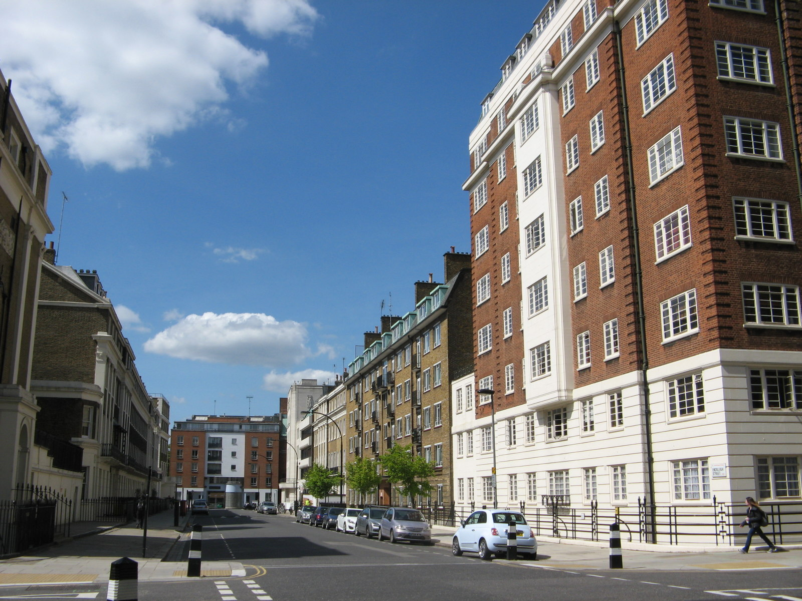 Endsleigh Street, London, seen from Endsleigh Place. The building on the right is Tavistock Court.